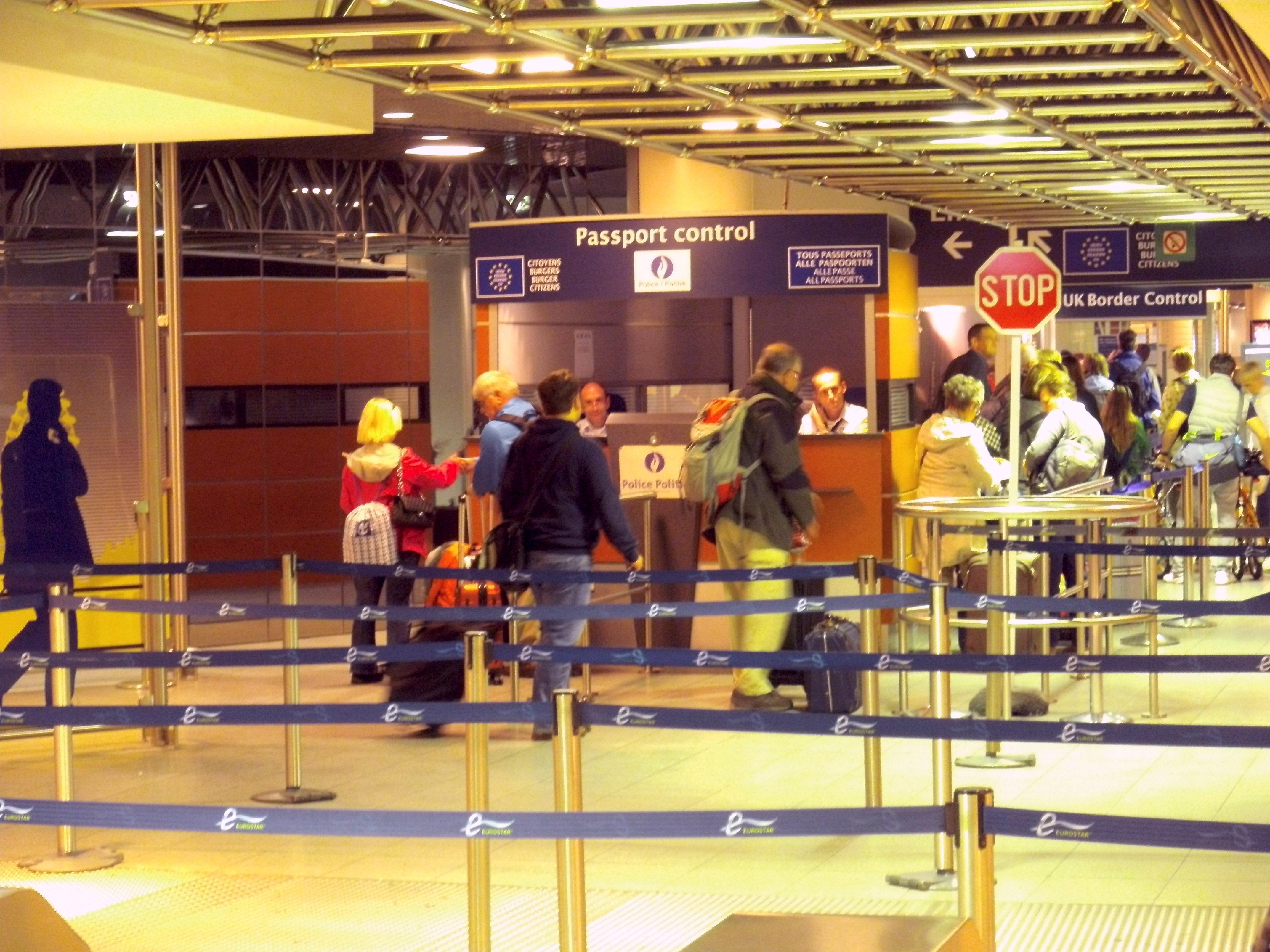 Check-In and passport control at the Eurostar station Bruxelles-Midi/Brussel-Zuid (Belgium)